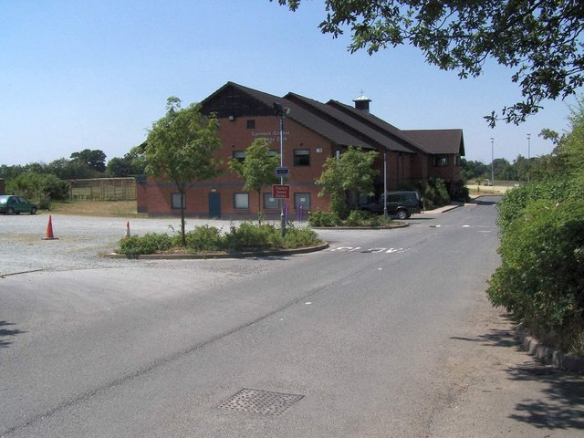 Cannock Cricket and Hockey Club. Home of the most successful men's Hockey team in England over the last few years.